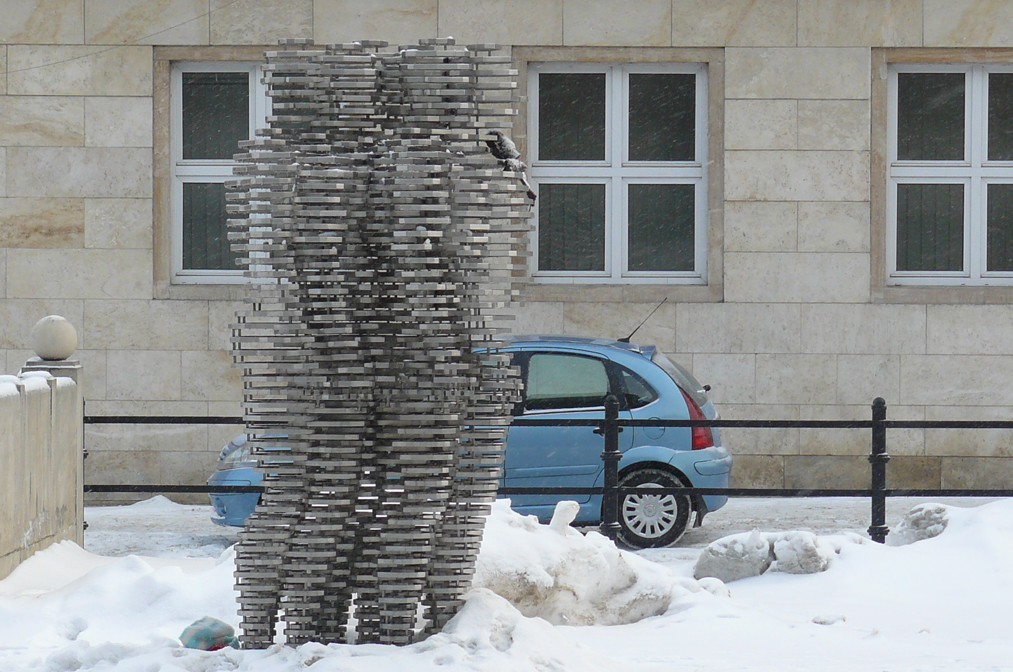 Golem Monument, Poznan.